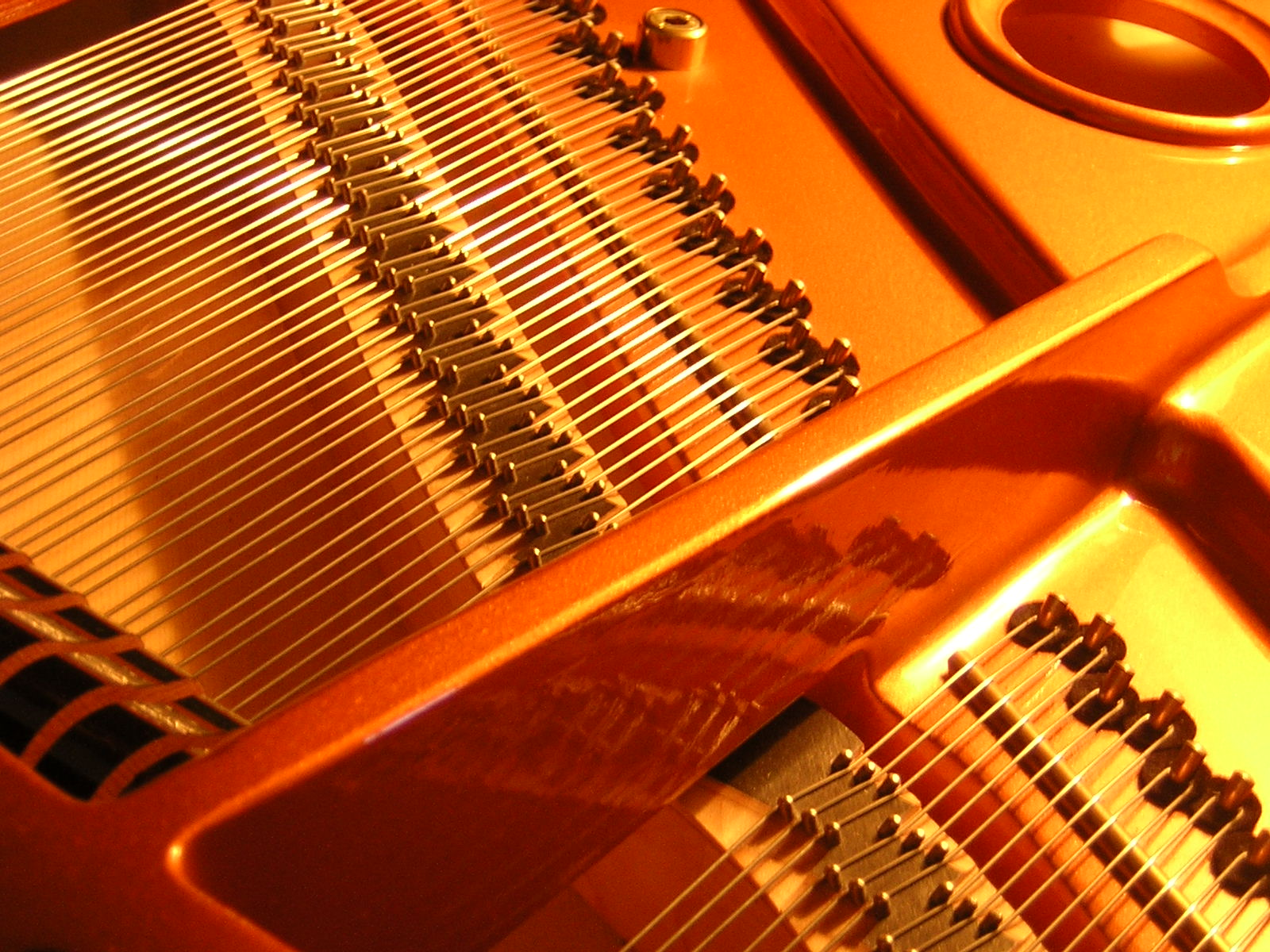 Interior of a grand piano Intended to illustrate the concept of duplex scaling in pianos by showing the duplex string lengths in the treble range of a grand piano.